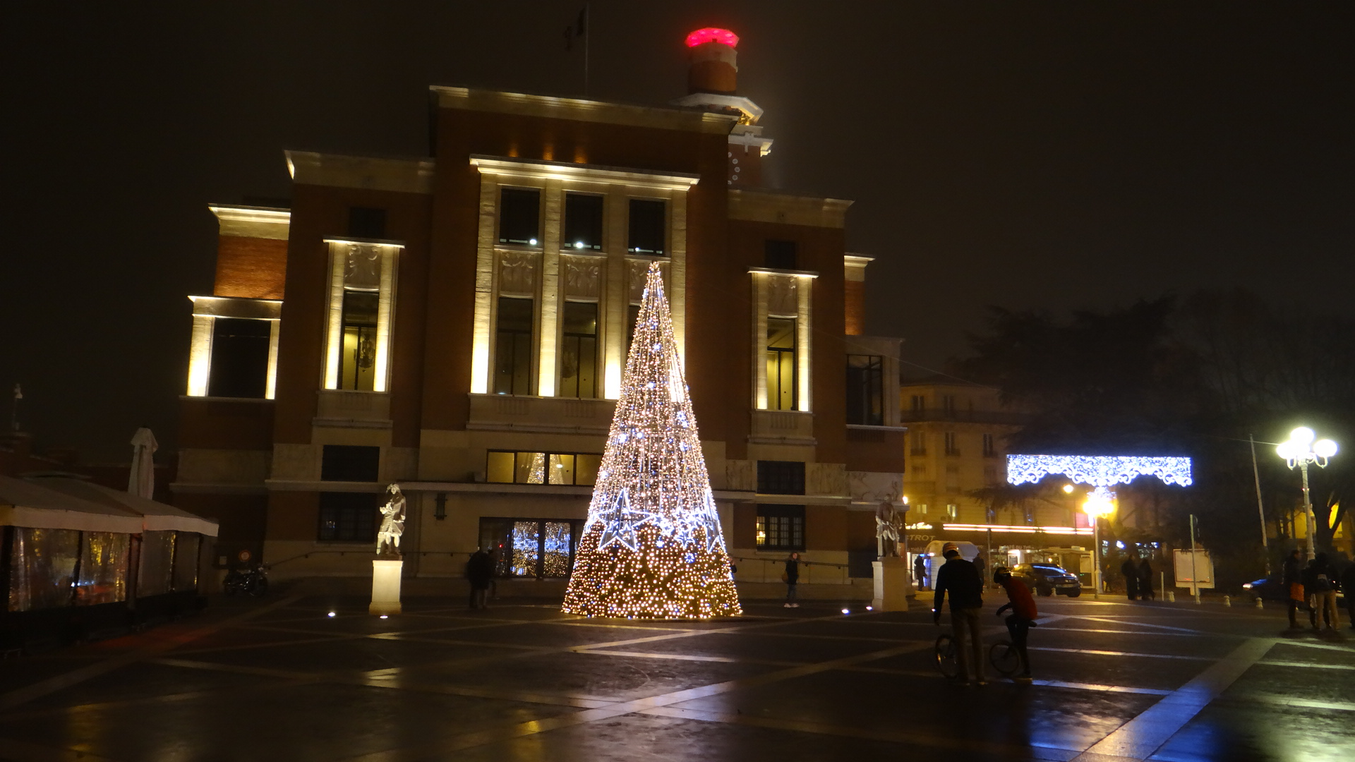 Chistmas illuminations, Emile Cresp Place, Montrouge, France